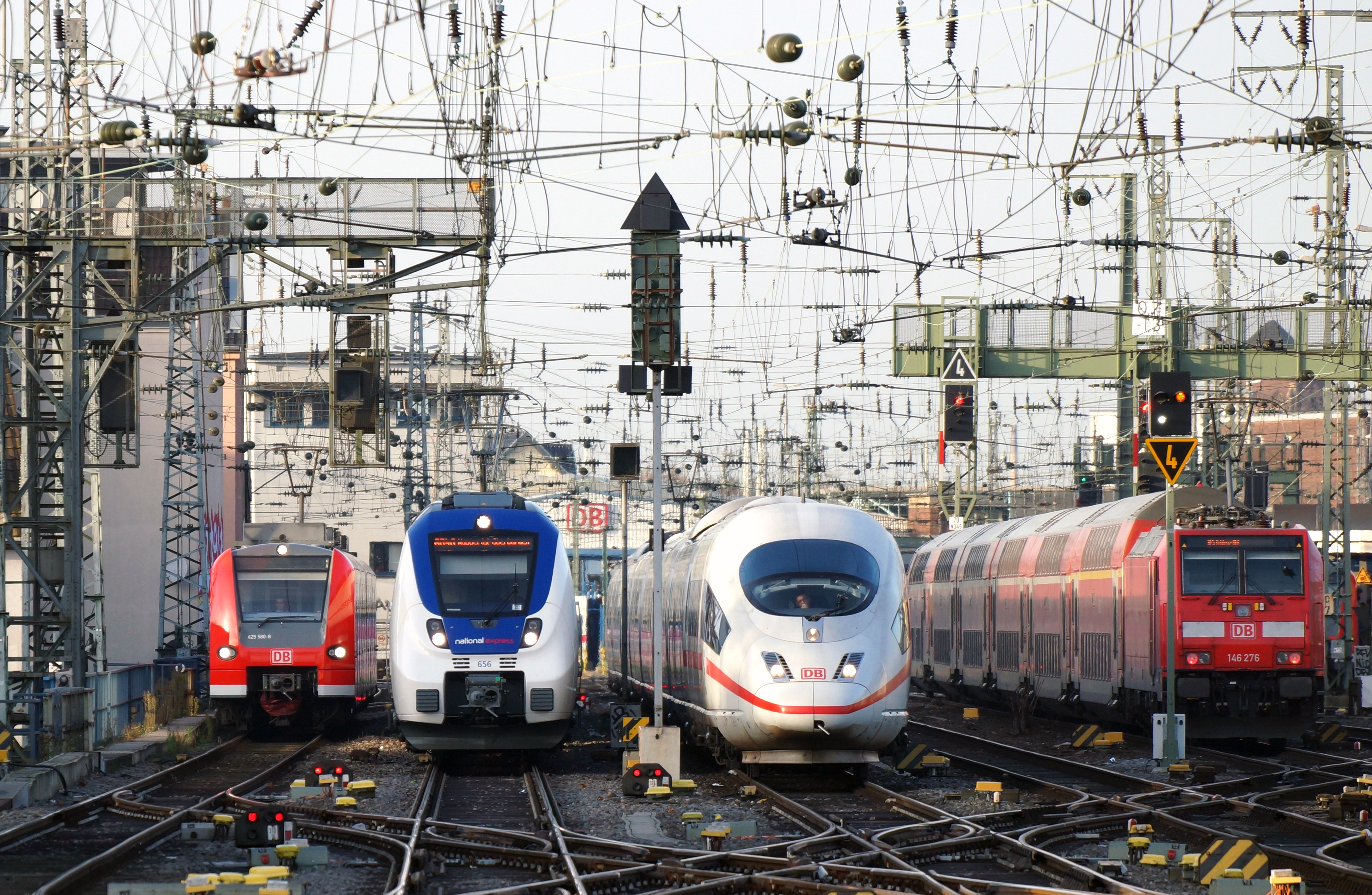 Four trains in the northern run-up of Cologne's central station. From left to right: DB Regio, National Express, ICE 3 (DB Fernverkehr), DB Regio.